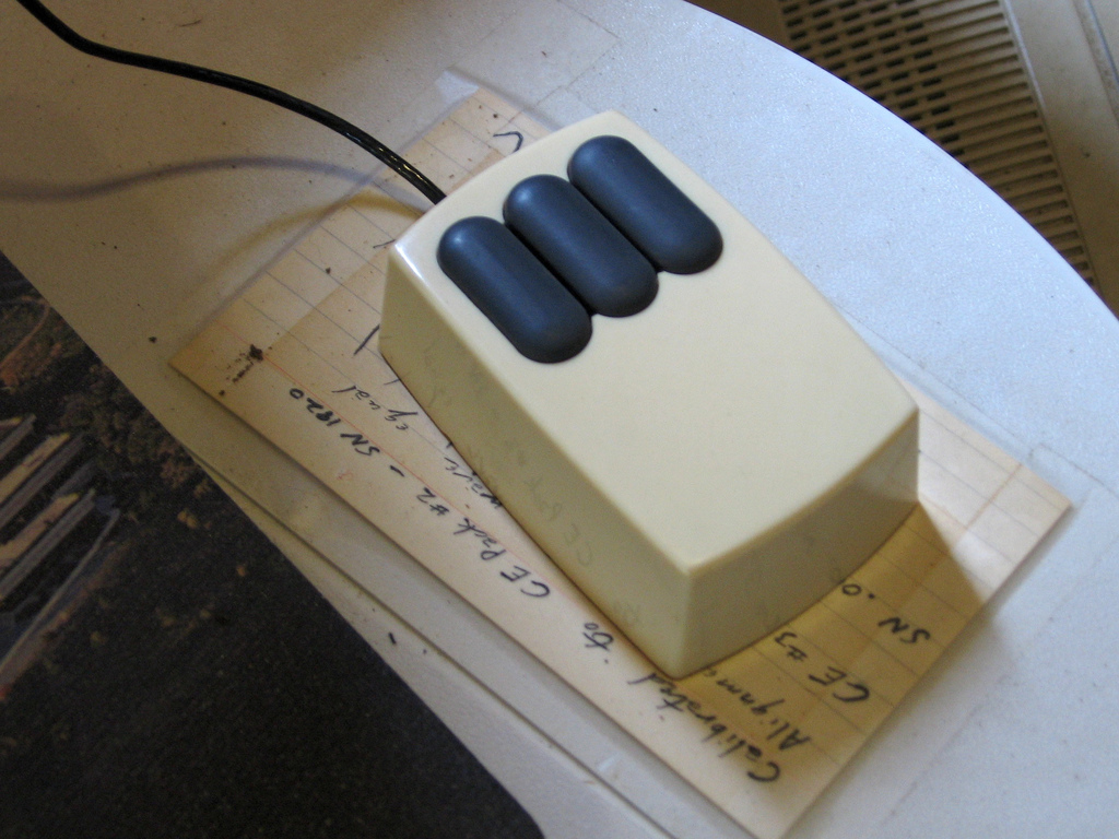 Xerox Alto mouse